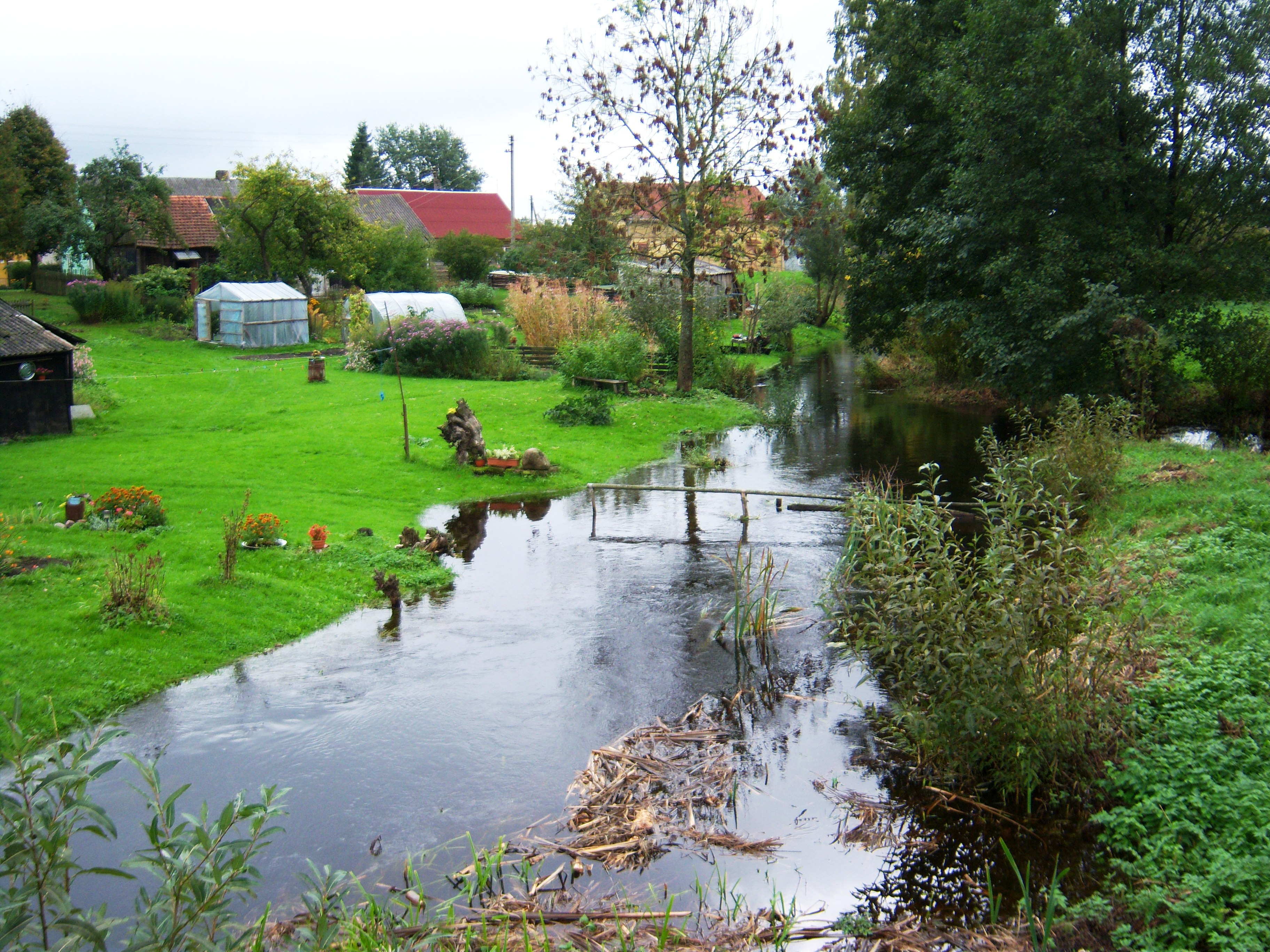 Višakis River, in Višakio Rūda, Kazlų Rūda municipality, Lithuania